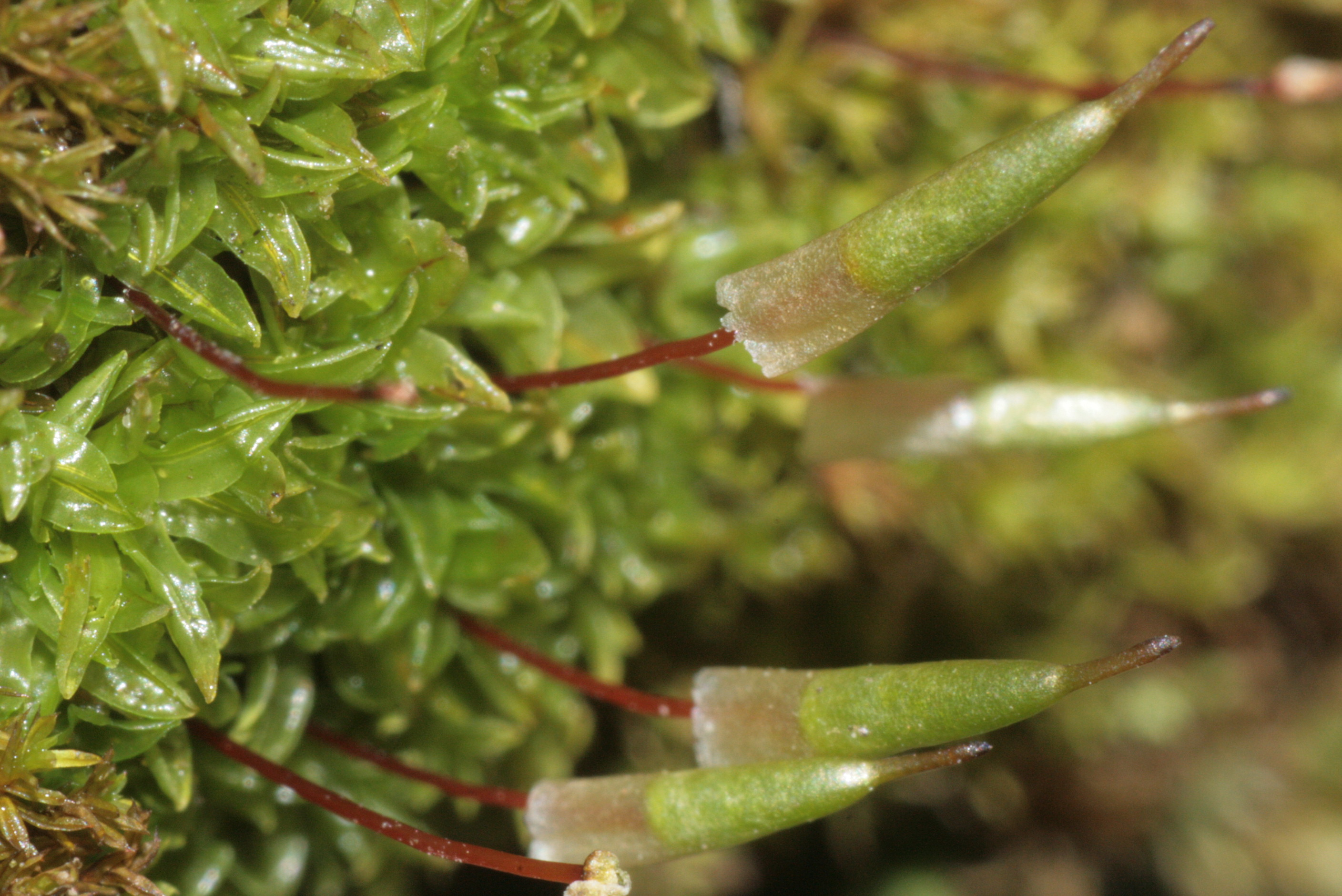 Encalypta vulgaris